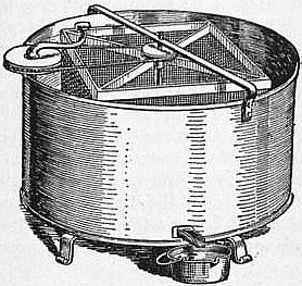 Hruschka Extractor. Redrawn from the A B C of Bee Culture, published by the A. I. Root Co, Medina, Ohio, U.S.A.) Illustration from 1911 Encyclopædia Britannica, article Bee